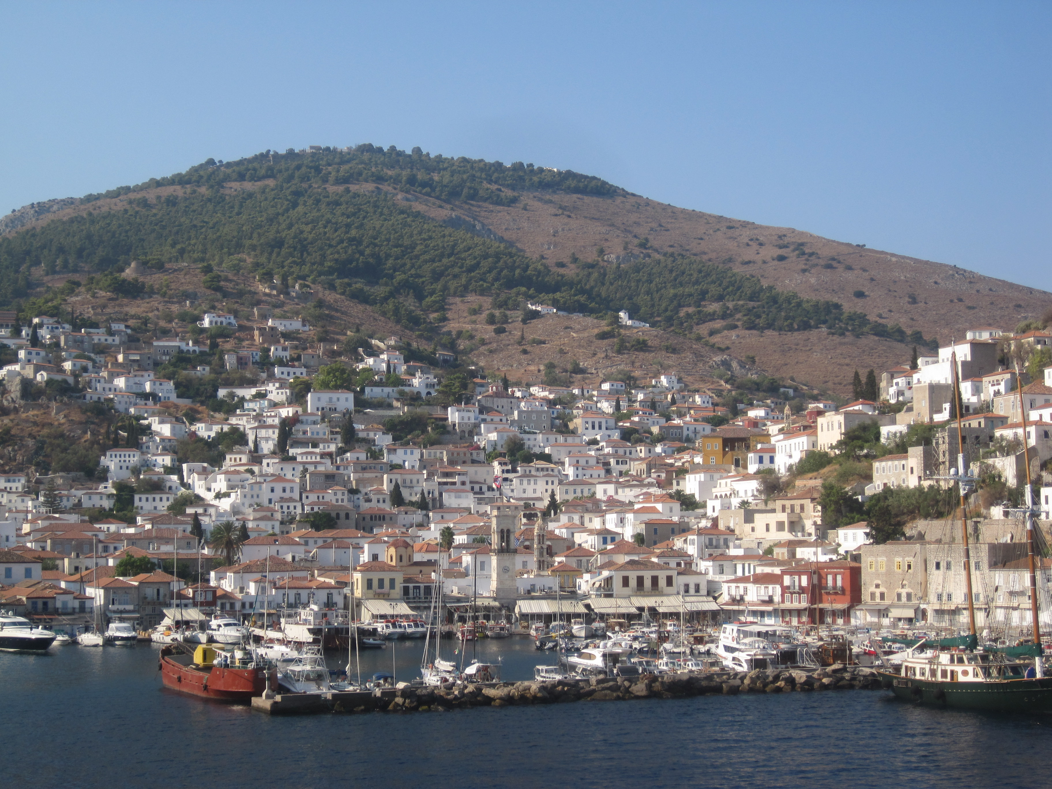 Hydra